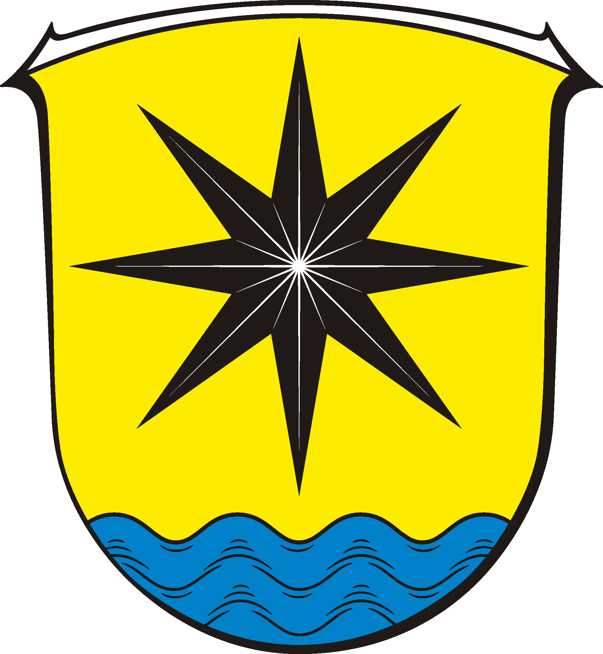 Coat of Arms of Edertal